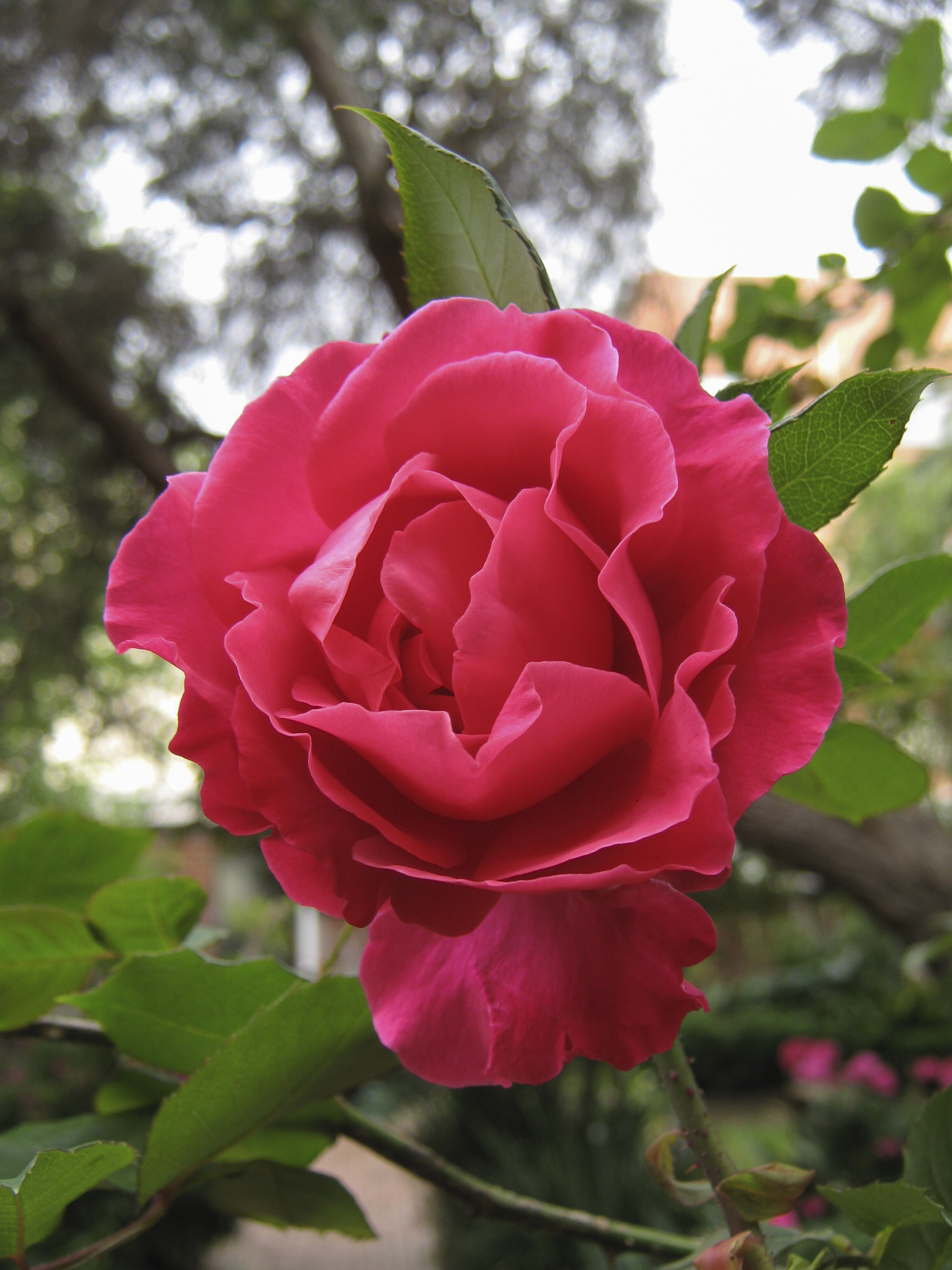 Rose 'Prudence' Hybrid Tea climber by Olive Fitzhardinge 1938: photographed in St Kilda, Victoria.